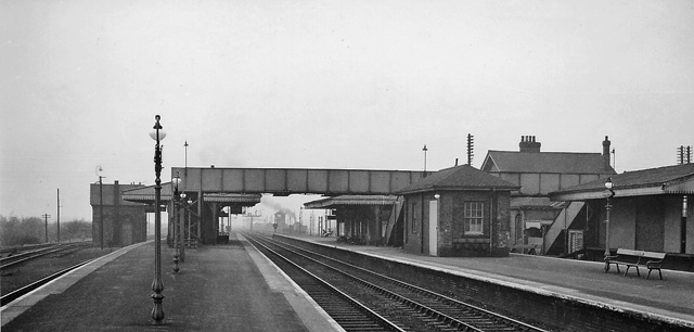 Barnetby Station, view towards Lincoln/Retford/Doncaster. A westward view on the same day as my TA0509 : Barnetby Station, view towards Immingham and Grimsby.